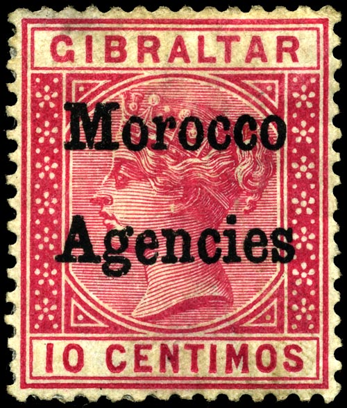 United Kingdom offices in Morocco 10-centimo stamp of 1898